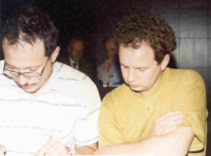 Mark Erenburg, Andrei Selivanov – chess composers at the PCCC-Meeting 1993 in Bratislava